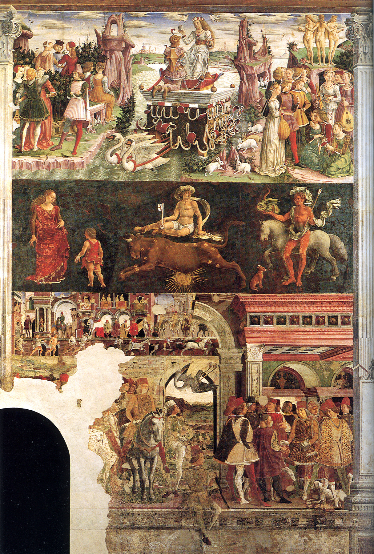 various Ferrarese artist Allegory of April Fresco Palazzo Schifanoia, Ferrara